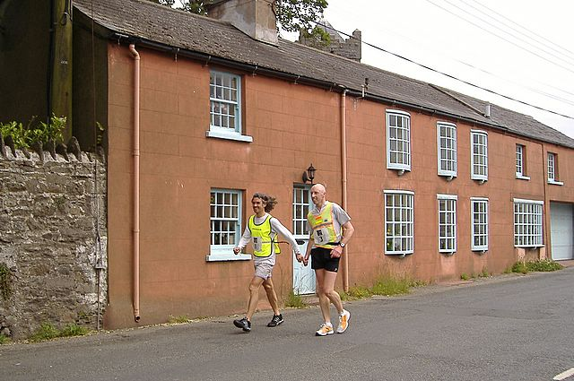 Parish Walk, Isle of Man. Taken at Ballasalla; the course is 85 miles long. There were 1582 entries this year. Sean Hands, (on the right) last year's runner-up, went on to win the event in a record breaking 14hrs 47 mins 36 secs. Robbie Callister, (on the left) last year's winner, came second. 162 walkers finished the course.